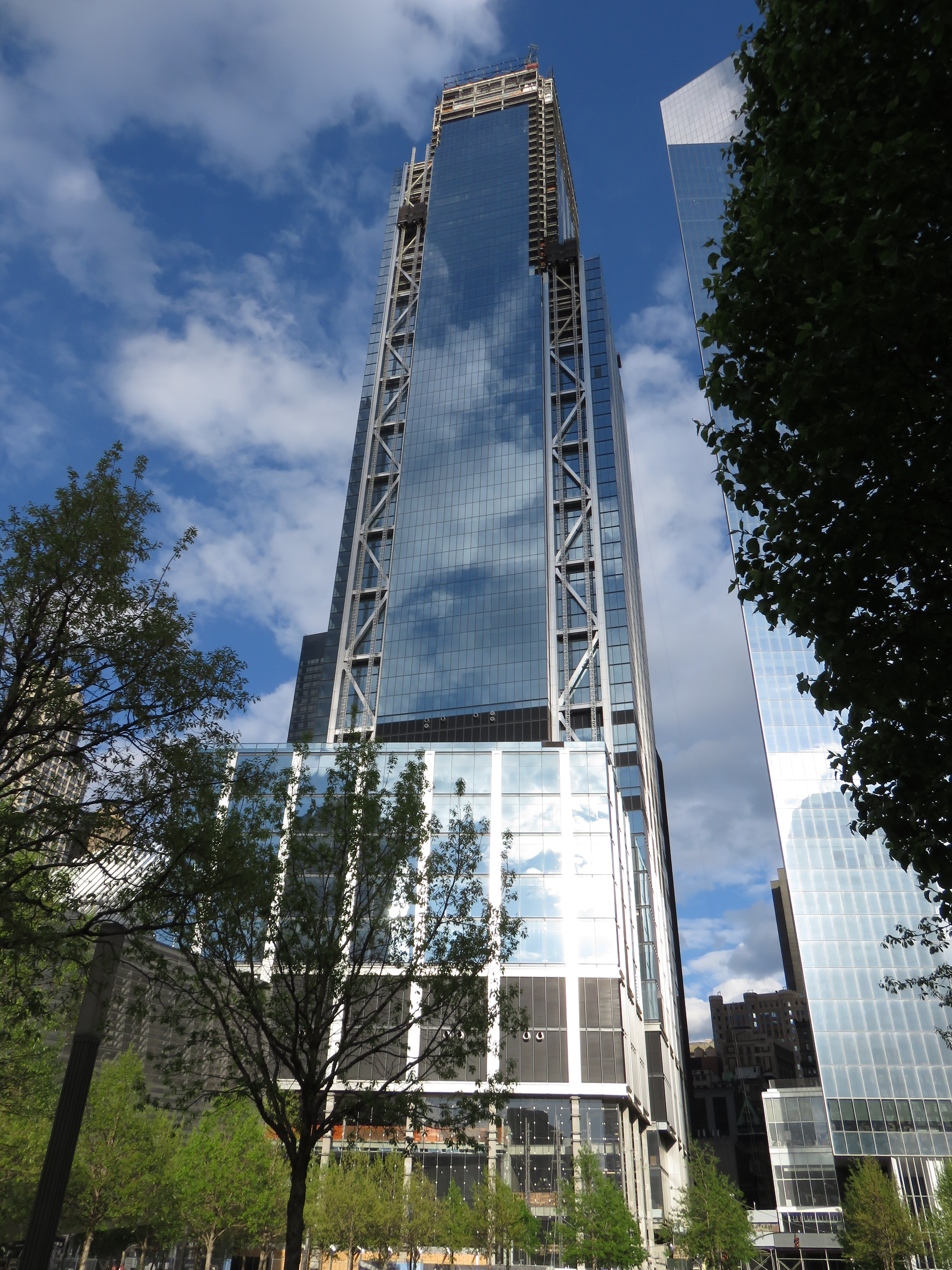 Three World Trade Center in the final stages of construction in 2017